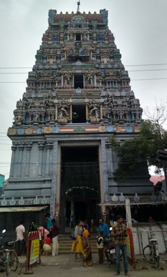 Rajagopura, Kumarakottam Temple, Kanchipuram, Tamil Nadu, India